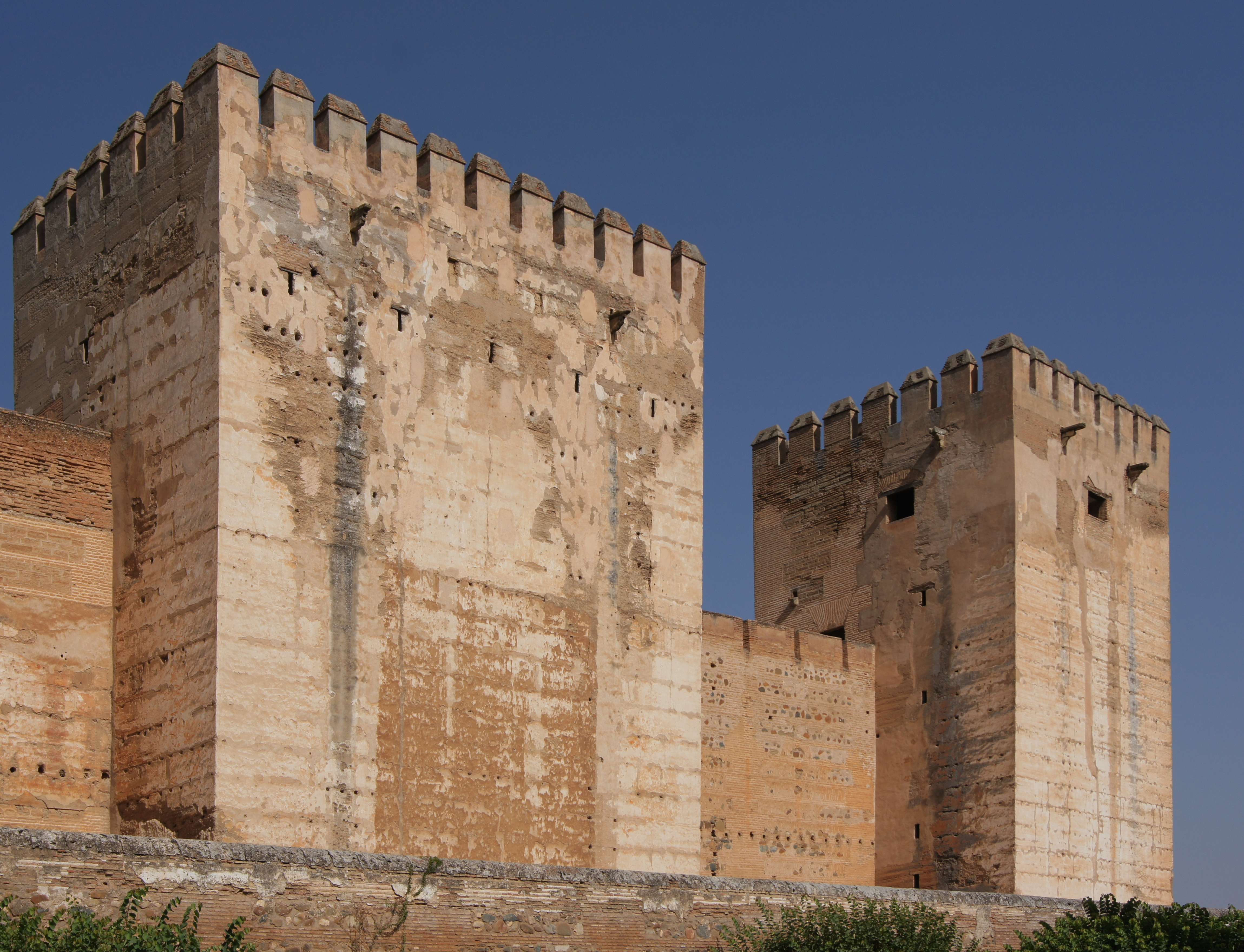 western towers of Alcazaba ("fortress") of the Alhambra, Granada, Spain